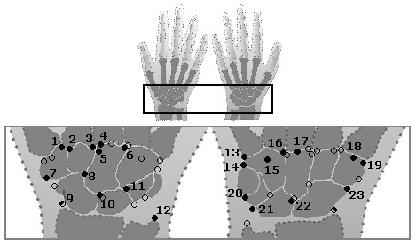 Location of the accessory ossicles of the carpals. On the left, the dorsal aspect of the right hand, on the right the palmar aspect of the right hand. The more dorsally situated ossicles are shown in closed circles on the left and open circles on the right. 1=Os trapezium secundarium; 2=Os trapezoideum secundarium; 3=Os parastyloideum; 4=Os styloideum; 5=Os metastyloideum; 6=Os capitatum secundarium; 7=Os epitrapezium; 8=Os carpi centrale; 9=Os paranaviculare (intercalary bone between scaphoid and radius); 10=Os epilunatum; 11=Os epitriquetrum; 12=Os ulnostyloideum; 13=Os vesalianum manus; 14=Os ulnare externum; 15=Os hamulare basale & Os hamuli proprium; 16=Os gruberi; 17=Os subcapitatum; 18=Os praetrapezium; 19=Os paratrapezium; 20=Os pisiforme secundarium (os ulnare antebrachii); 21=Os triquetrum secundarium (os intermedium antebrachii, os triangulare); 22=Os hypolunatum; 23=Os radiale externum